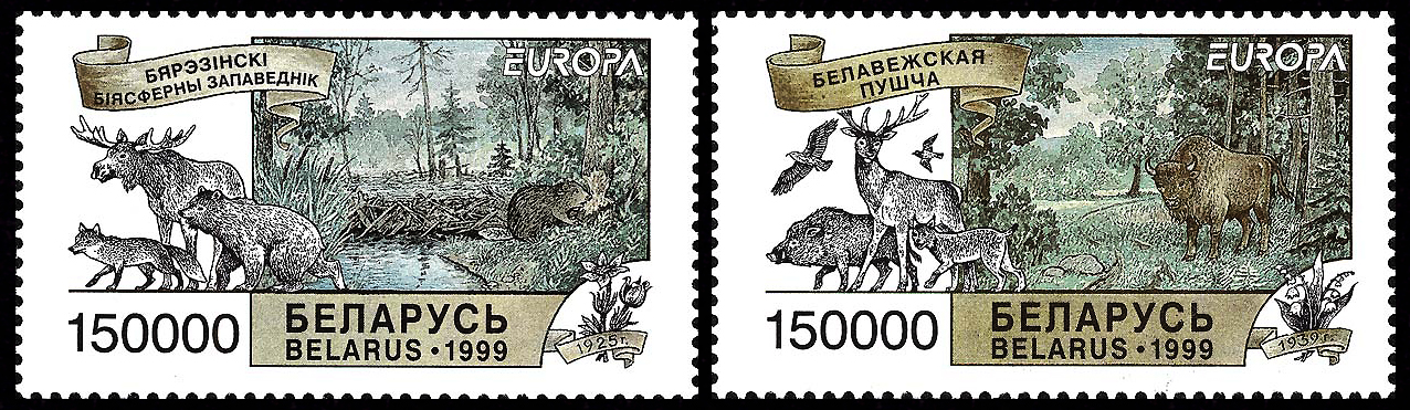 Postage stamps of Belarus, 1999. Issue on the program Europa.